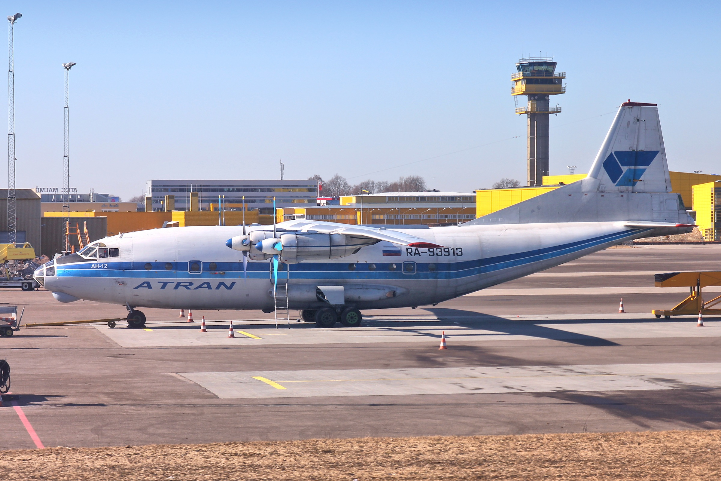 Antonov An-12, registration RA-93913. Operating for ATRAN (part of Volga Dnepr Group). In background: Malmö Airport control tower.